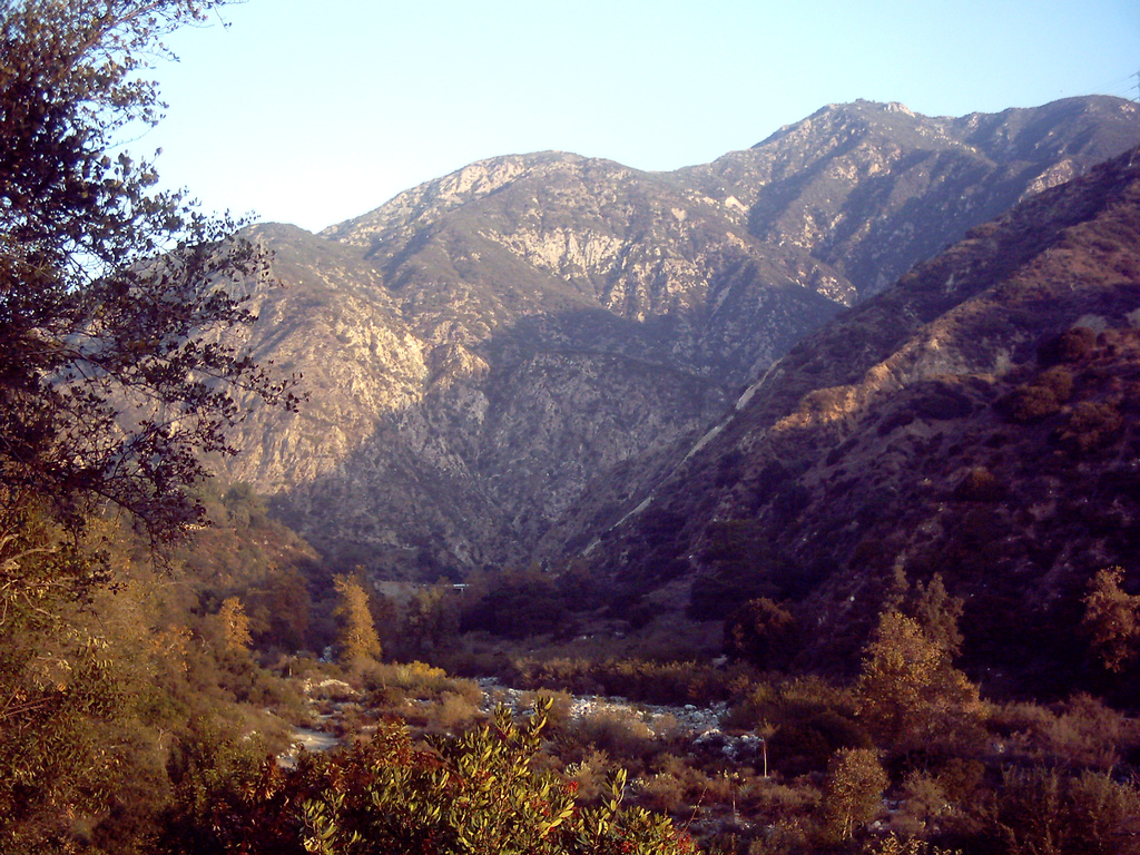 Eaton Canyon and the San Gabriel Mountains above Altadena, Southern California. Bridge over Rio de Eaton Cañon is barely visible in the distance.